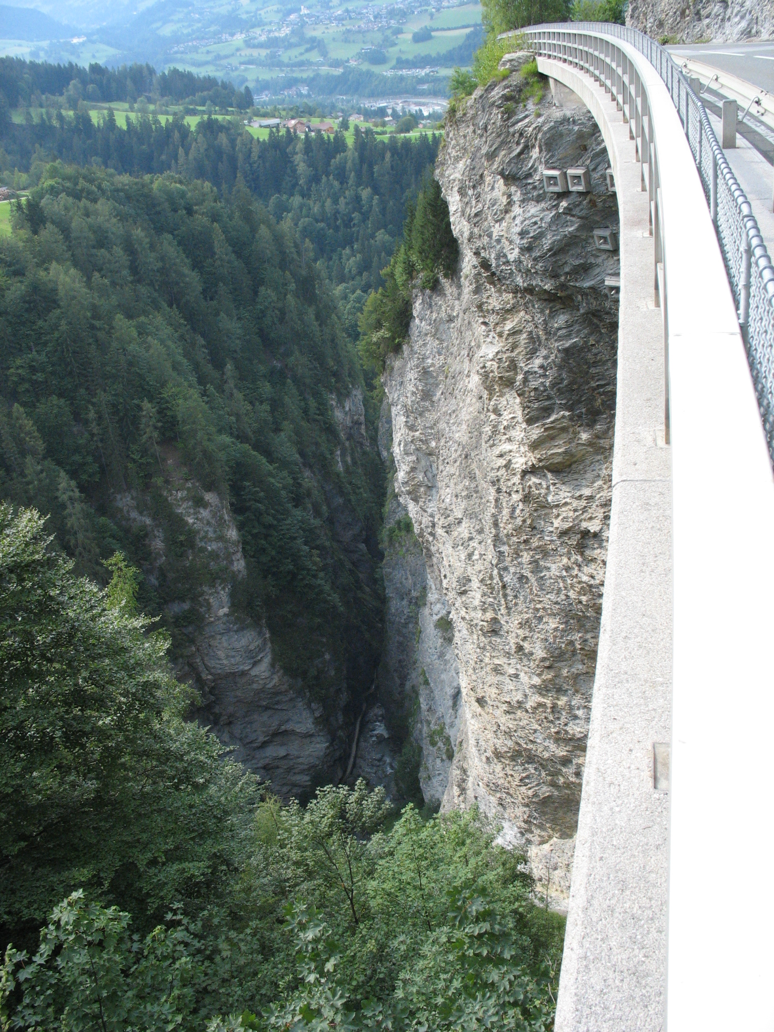 Liechtensteinklamm